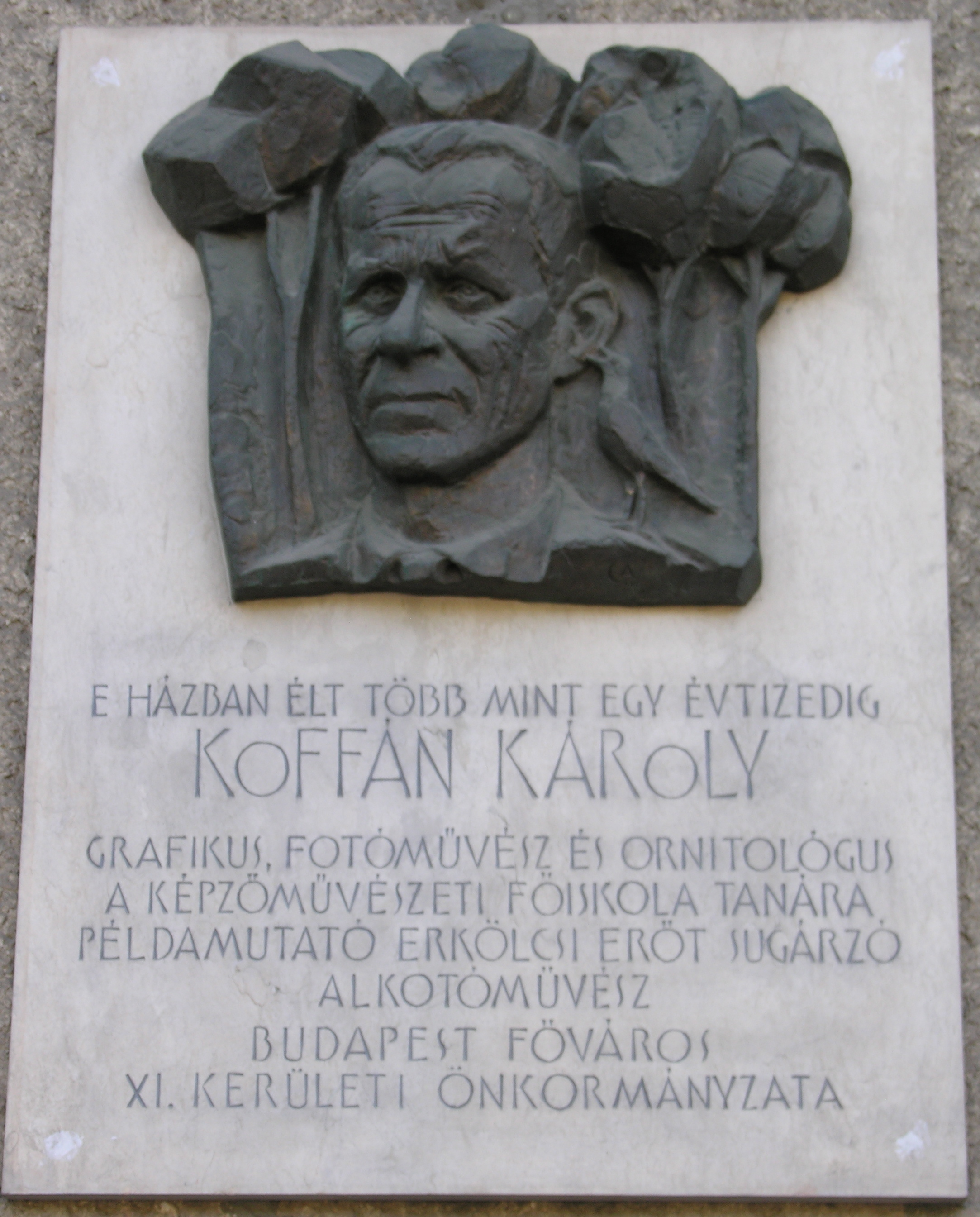 Commemorative plaque of Károly Koffán in Budapest District XI, Villányi Street No 38